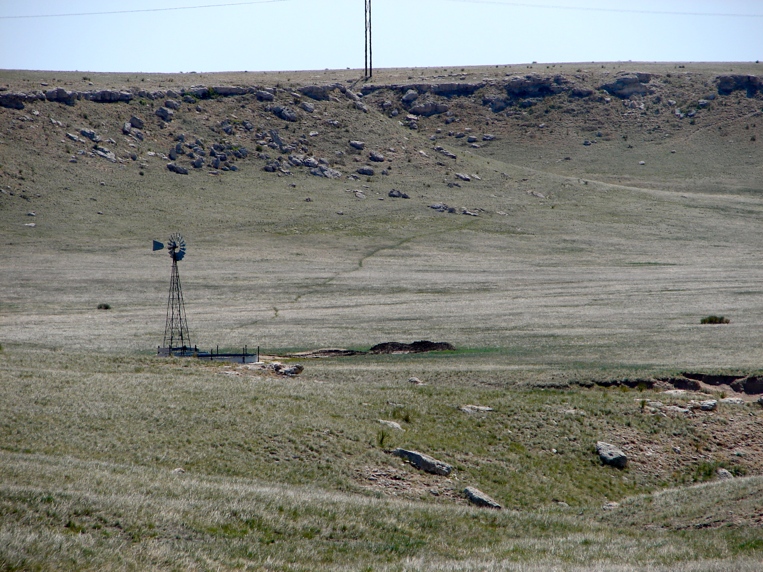 Deadwood Draw on the NRHP since November 12, 1992. West - Northwest of Sidney, Cheyenne County, Nebraska. Unusual NRHP site in that there are no historic structures, although there are supposedly wagon ruts. The old wind mill and water tank are 20th century "intrusions". Land privately owned and fenced off, but if you want a closer look, just watch out for the barbed wire and rattlesnakes! The "draw" is just a (usually) dry stream bed in front of the windmill. It's historical significance is that when nearby Sidney was the end of the railroad line (Rock Island?) in the 1870s, Deadwood (now in South Dakota) became a gold rush town and Sidney, NE was the nearest railroad shipping point. Local brochure says "millions of pounds" (as in thousands of tons) of material was shipped from Sidney to Deadwood daily. The only "road" was up this draw. I don't know whether this "Deadwood Draw" continues on to become the more famous "Deadwood Gulch" near the actual Deadwood, SD, which is 273 miles away by modern roads according to Google Maps (through Alliance, NE and Rapid City, SD). Depth of the photo must be 300-400 yards. Local resident tells me the wagon ruts are about a 100 yards past (east of) the windmill. But I don't trespass where there are rattlesnakes!